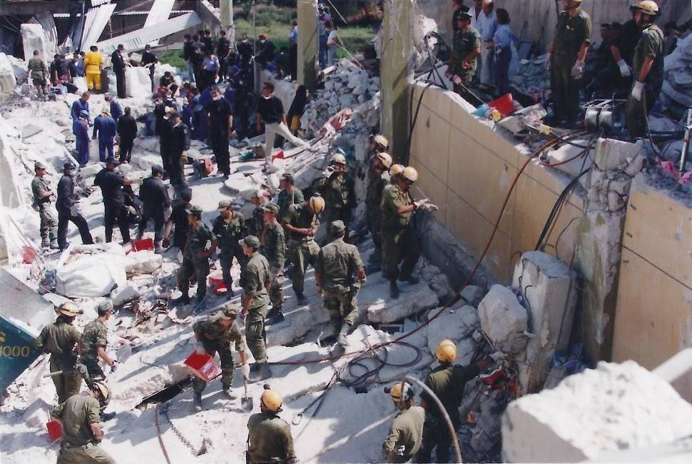 On September 7, 1999, an earthquake struck the city of Athens. IDF sent a delegation to Athens, to participate in joint action with Swiss and French search and rescue teams. Desperately needed heavy engineering tools were brought by the Israeli delegation, and these helped the rescue teams to work quickly and efficiently. The President of Greece thanked Israel for “leaving your problems back at home to come help us with ours.”